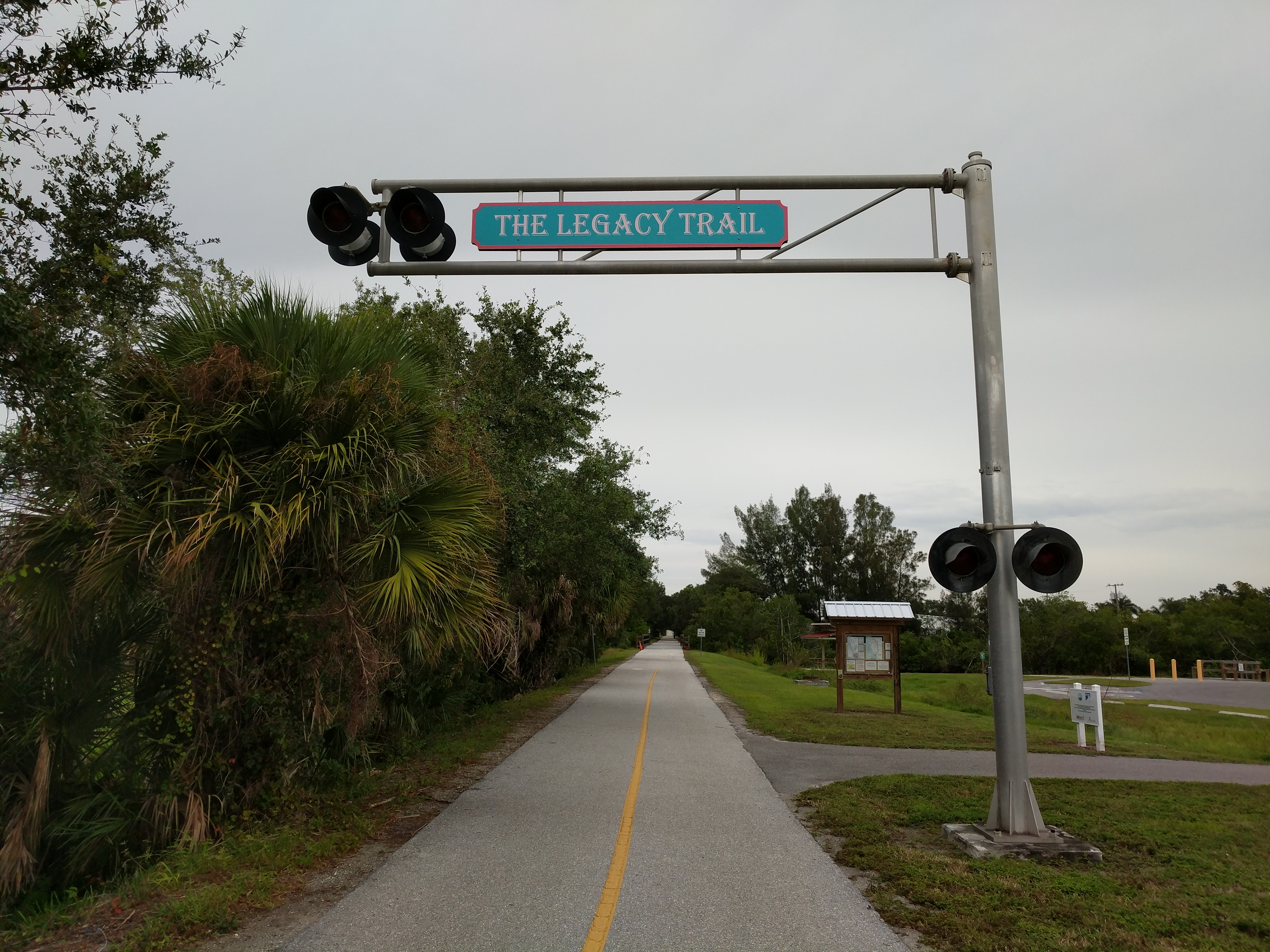 Entrance of Legacy Trail in Venice, FL near the Historic Train Depot